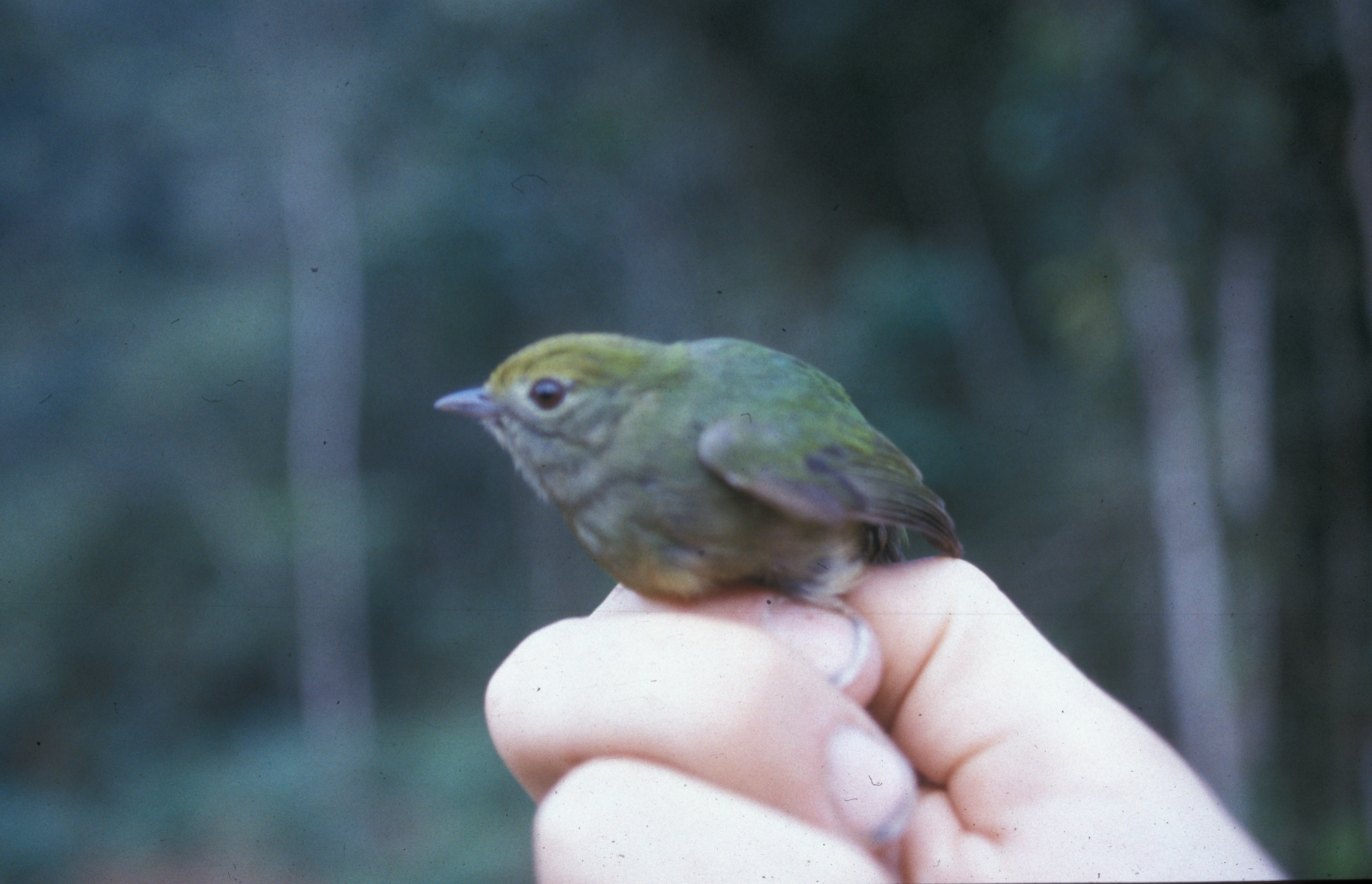 Blue-rumped Manakin (Lepidothrix isidorei) from the NBII Image Gallery. A female photographed in Ecuador.